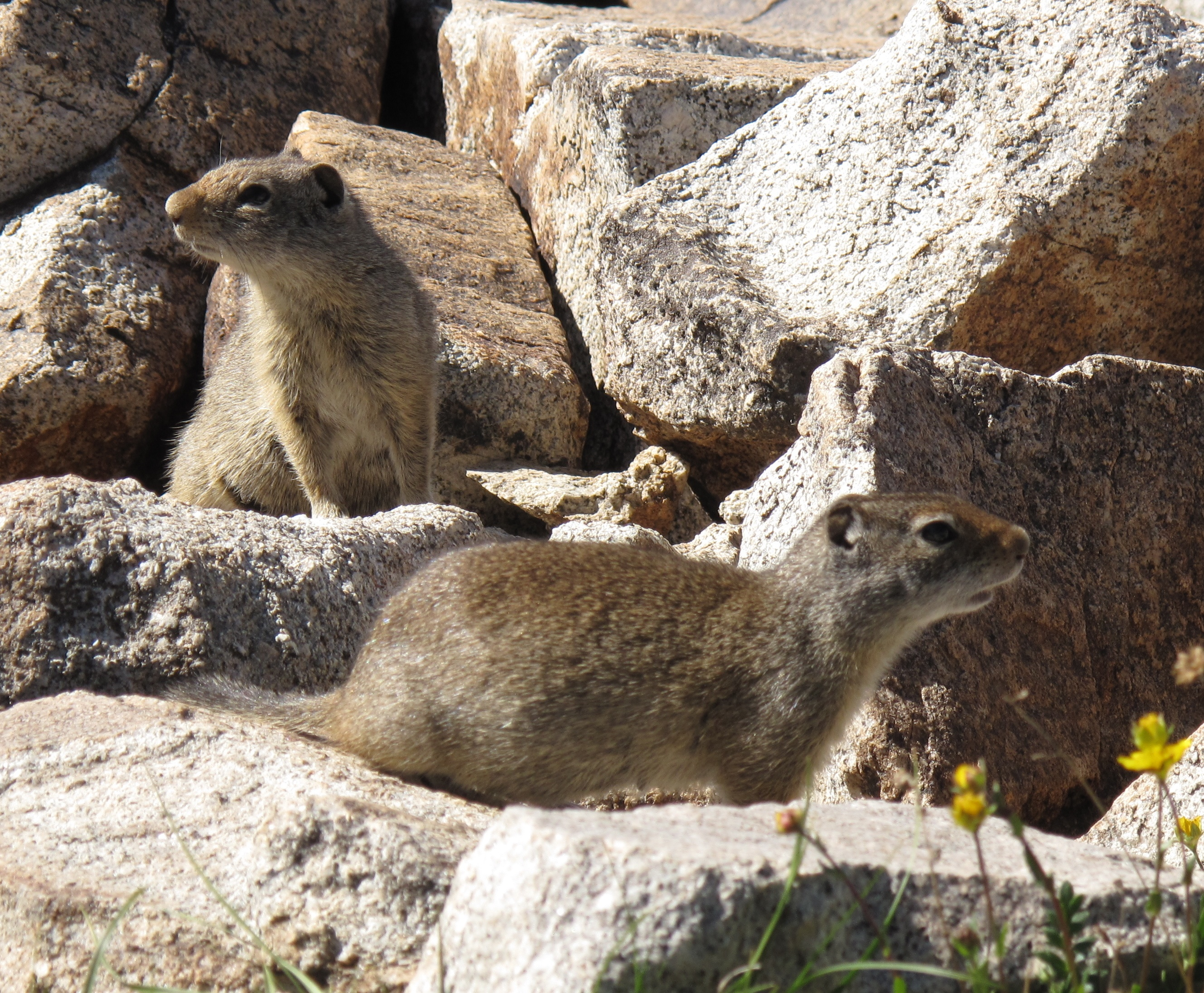 Uinta Ground Squirrels